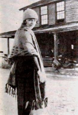 Still from the American comedy film Going Some (1920) showing Helen Ferguson on location in Victorville, California, on page 105 of the January 3, 1920 Exhibitors Herald.